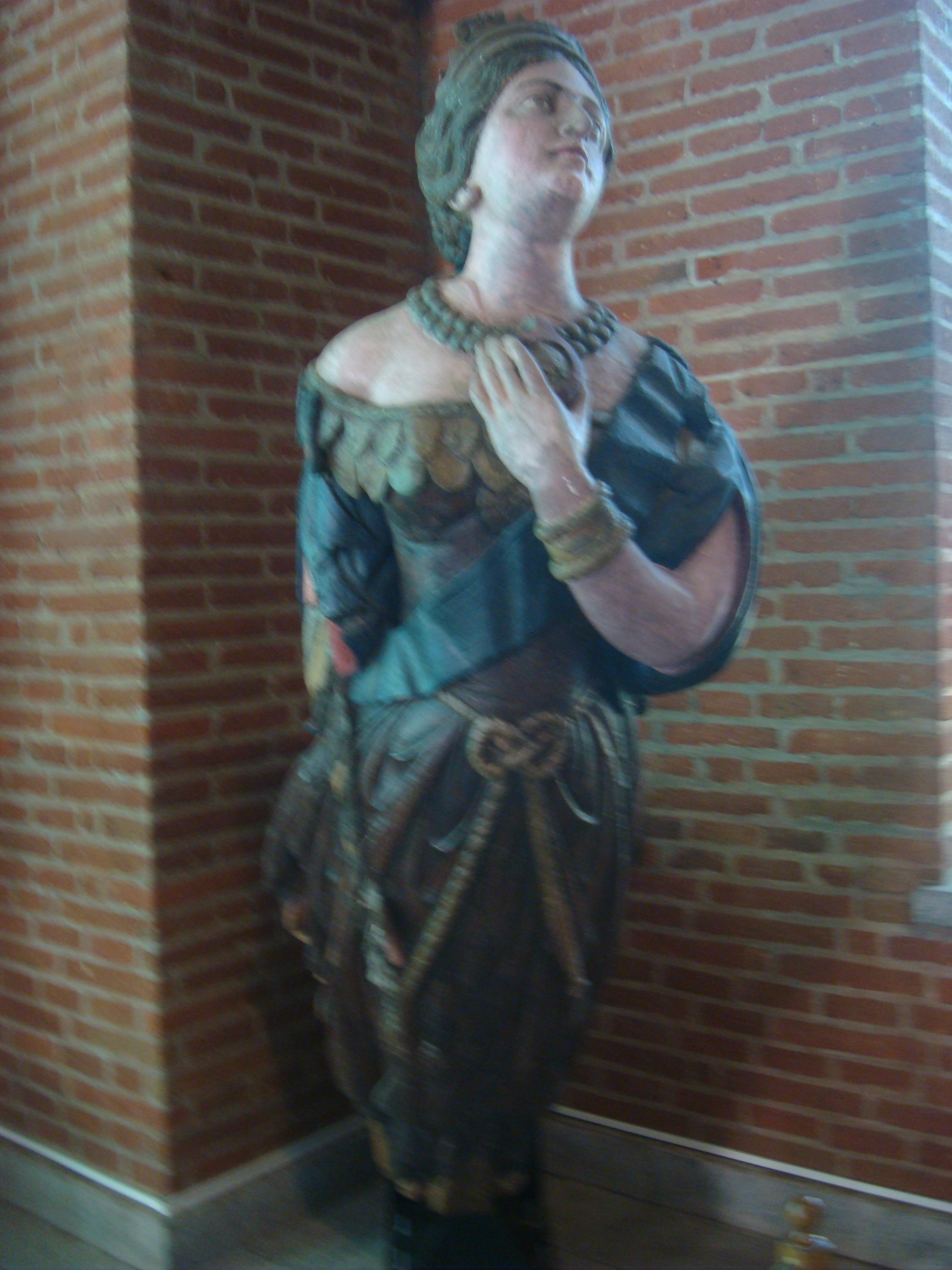 Figurehead of the frigate school Lautaro (ex Majestic, constructed in Hull, Great Britain, in 1860, bought in 1898). The mask is in the National Maritime Museum, in the Artillery hill of Valparaíso.